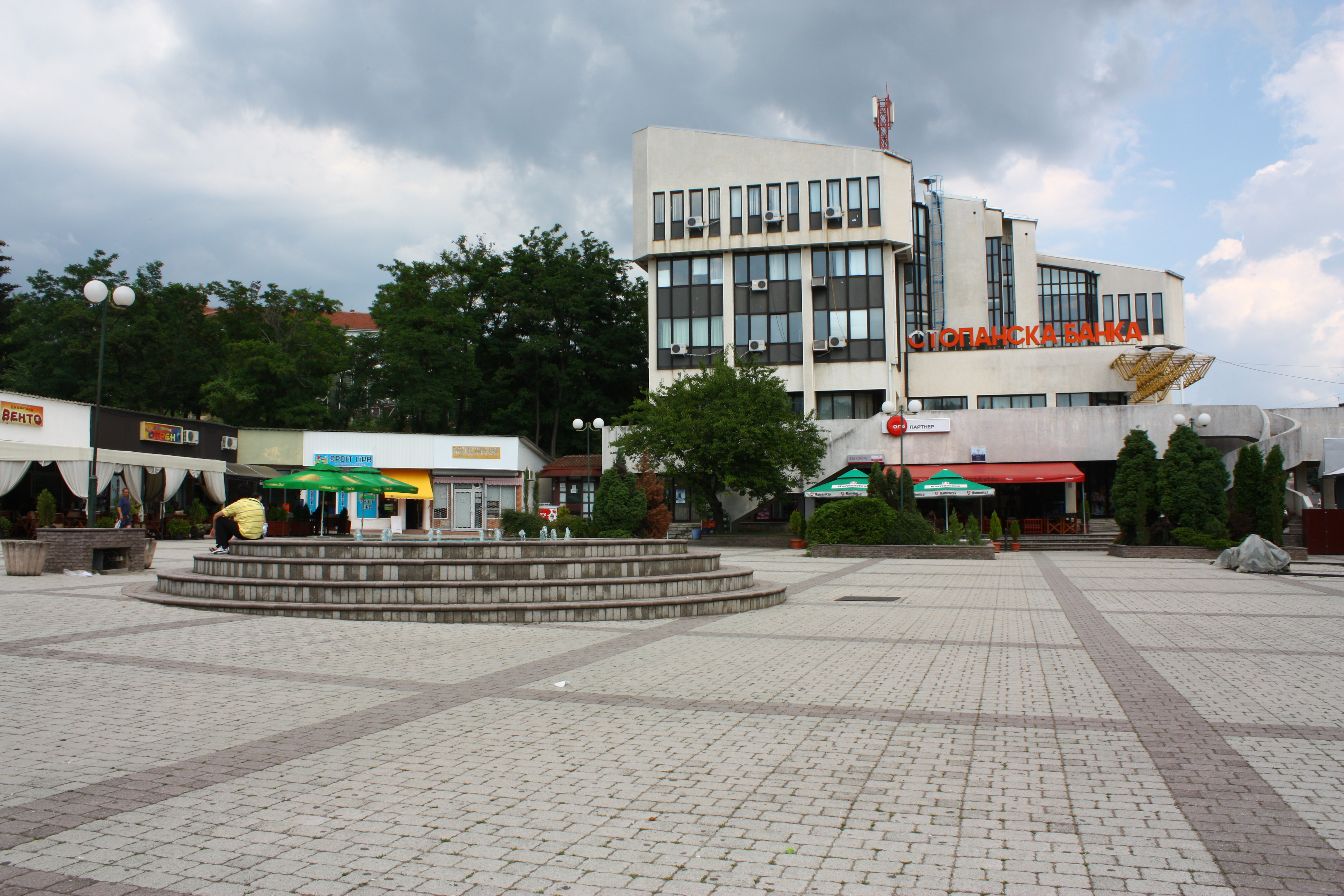 Probištip, Macеdonia.